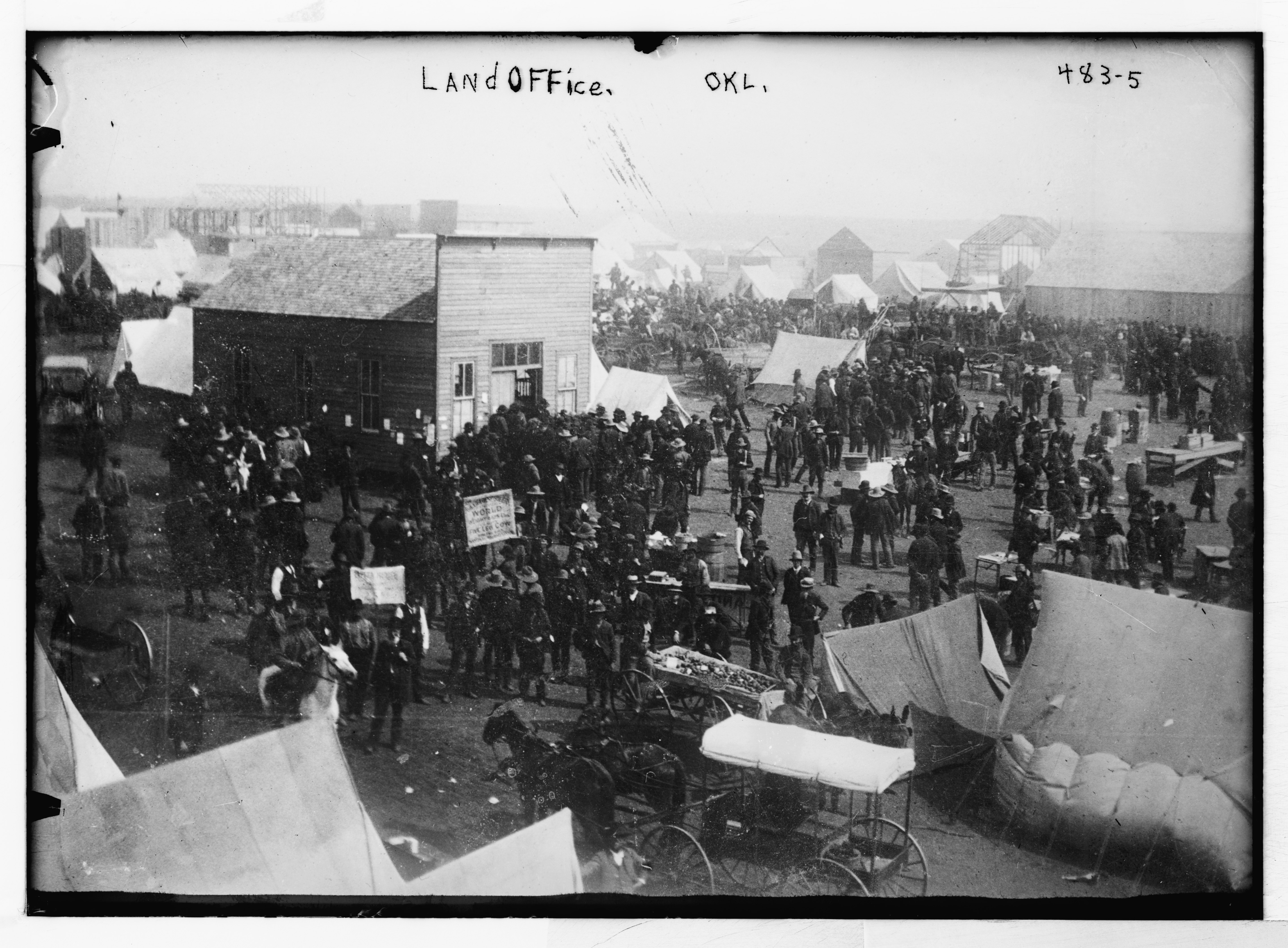 Title: Land office, Okl. [Oklahoma] Abstract/medium: 1 negative : glass ; 5 x 7 in. or smaller.